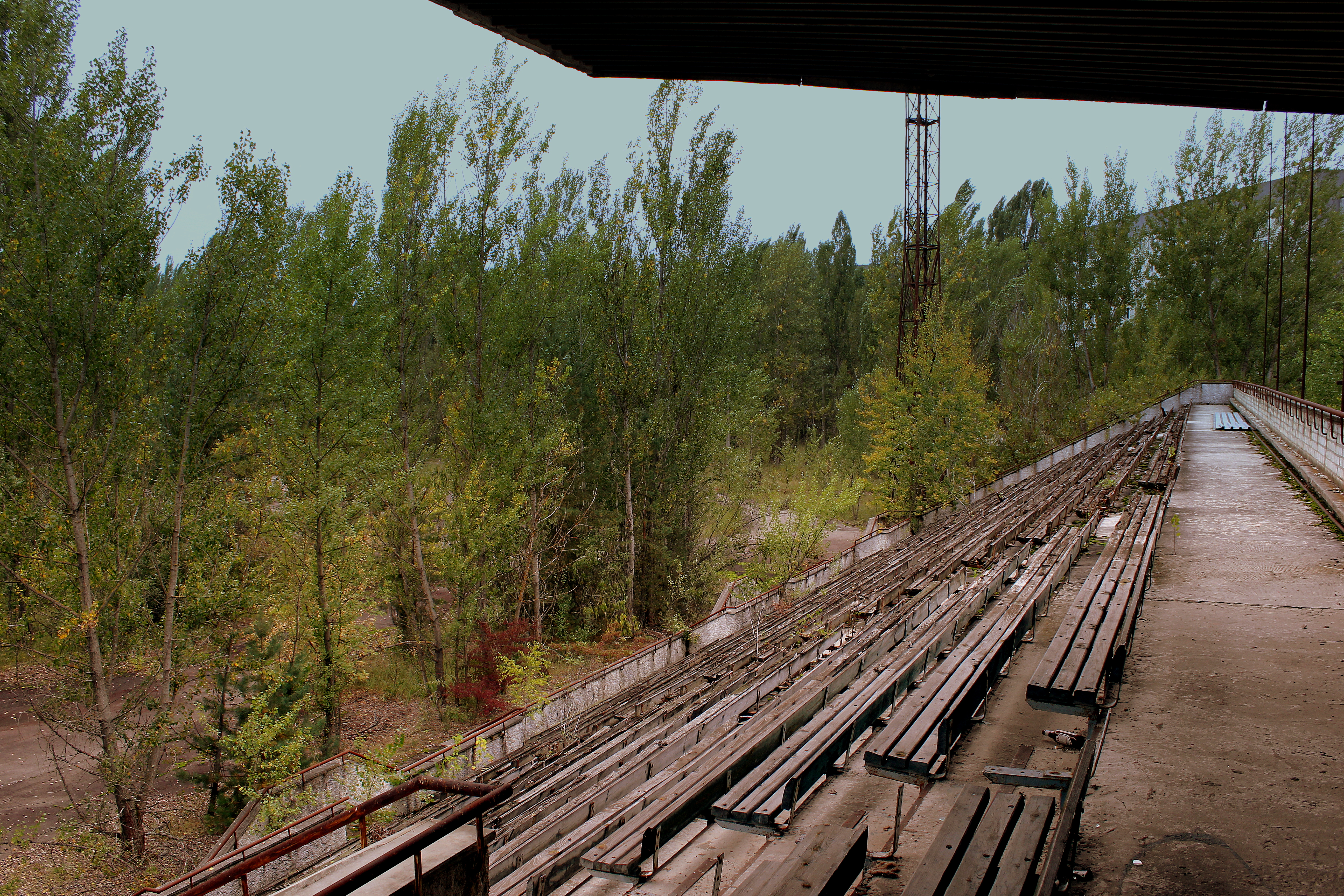 PRIPYAT FOOTBALL GROUND NEAR THE CHERNOBYL PLANT NOW ABANDONED UKRAINE SEP 2013